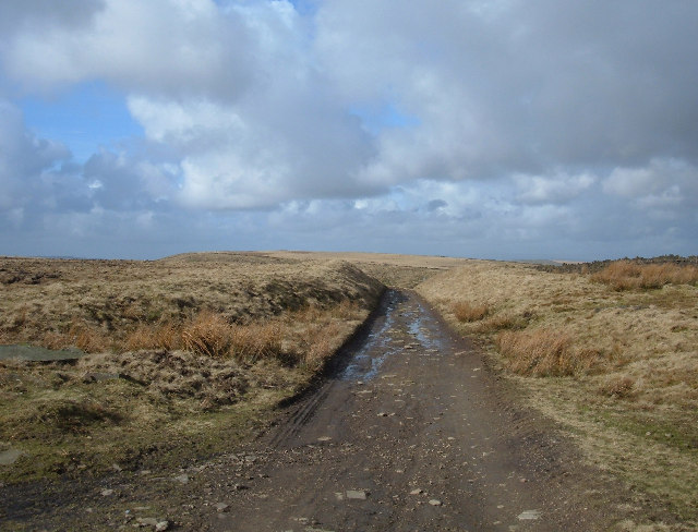 Pennine Bridleway, Cowpe Moss. View looking NW heading towards Waterfoot in the Rossendale Valley